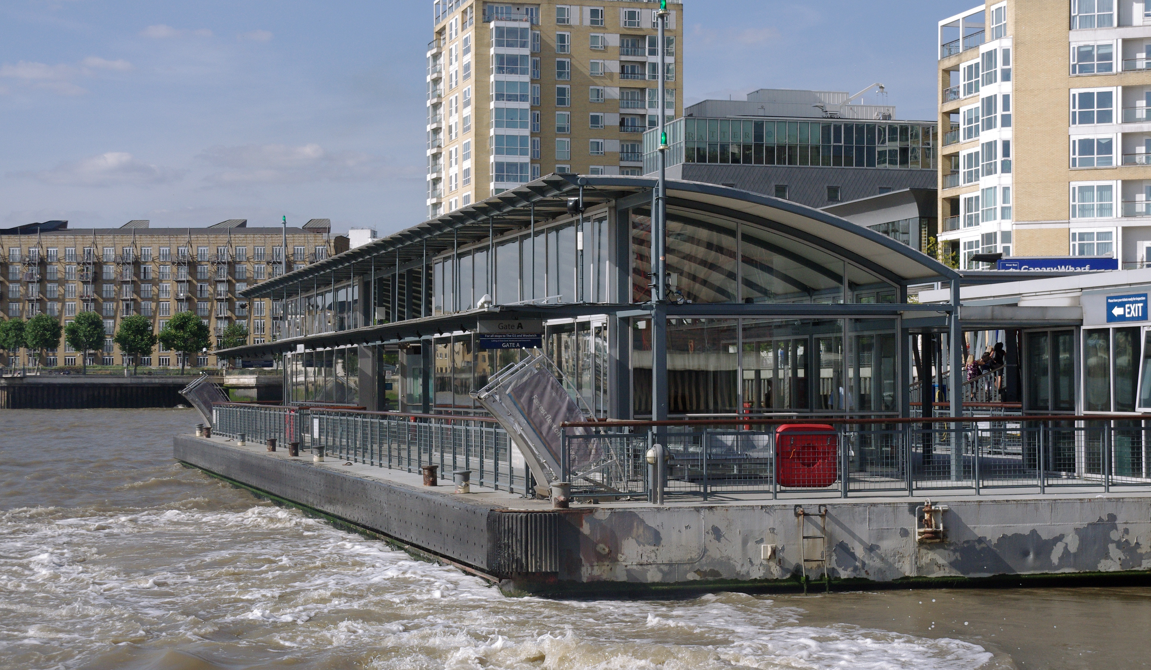 Canary Wharf Pier seen from the south.